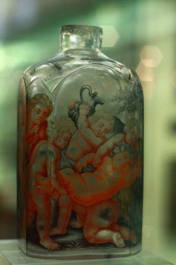 One of a pair of spirit flasks 1720-30 Bohemia Glass, enamelled Decorated by Ignaz Preissler Wilfred Buckley Collection Collection ID: C.338-1936 This photo was taken as part of Britain Loves Wikipedia in February 2010 by Iza Bella.